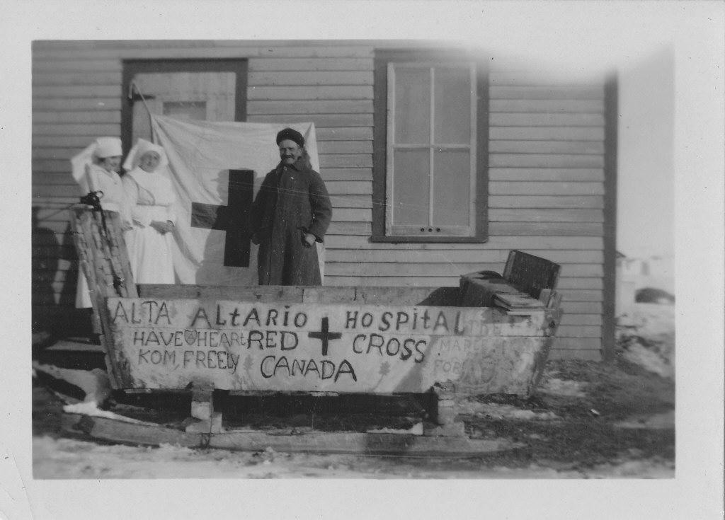 First Red Cross Hospital in Western Canada opened 1920, Dr. Dean Robinson